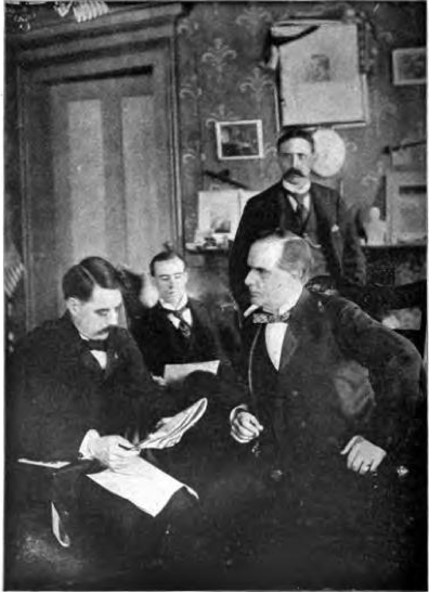 Governor William McKinley gives orders during the 1896 presidential campaign from his house in Canton.